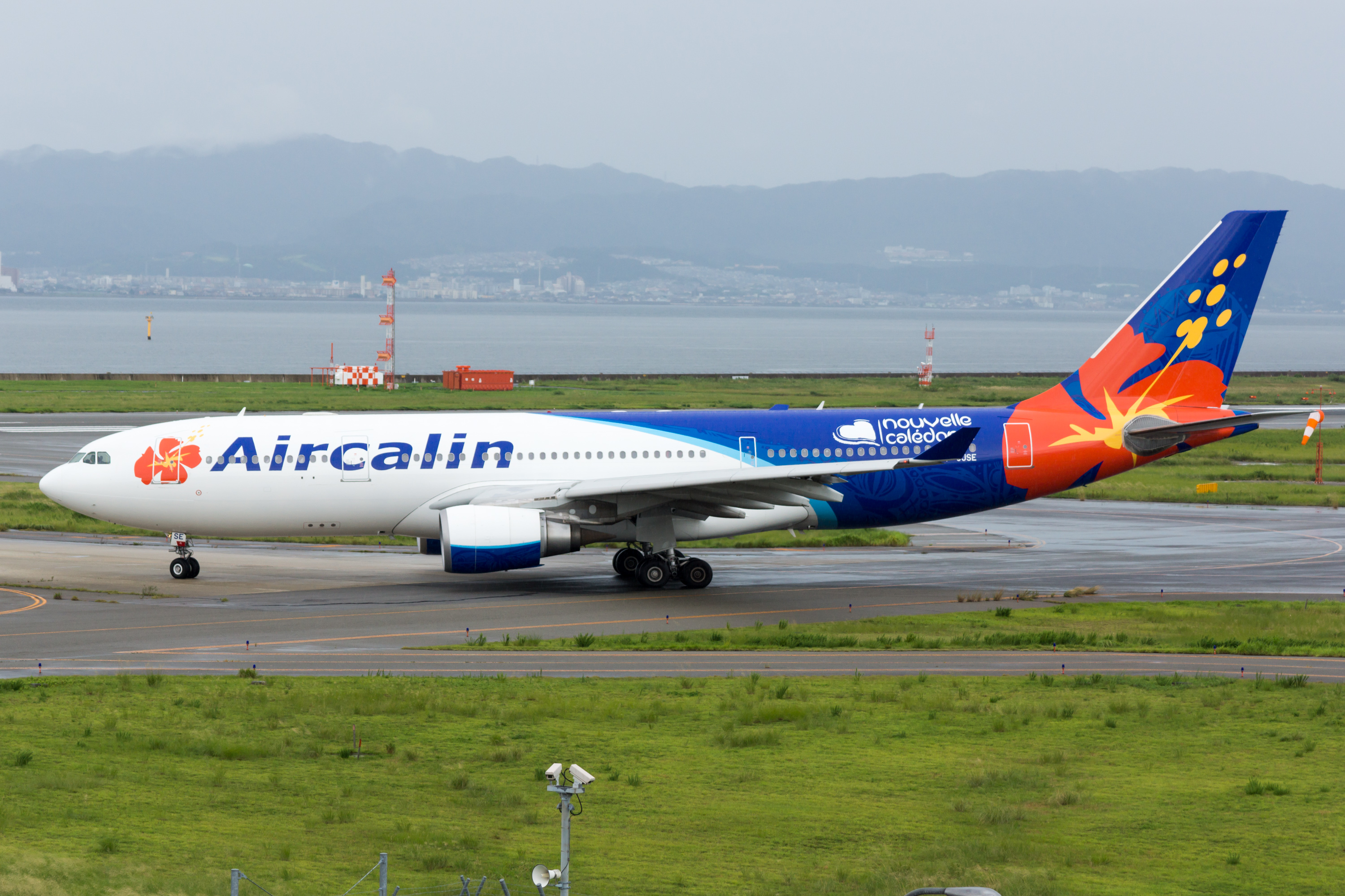 Aircalin / Air Calédonie International / エア・カレドニア・インターナショナル Airbus A330-202 F-OJSE SB881, Departed to Noumea Osaka Kansai Int'l Airport